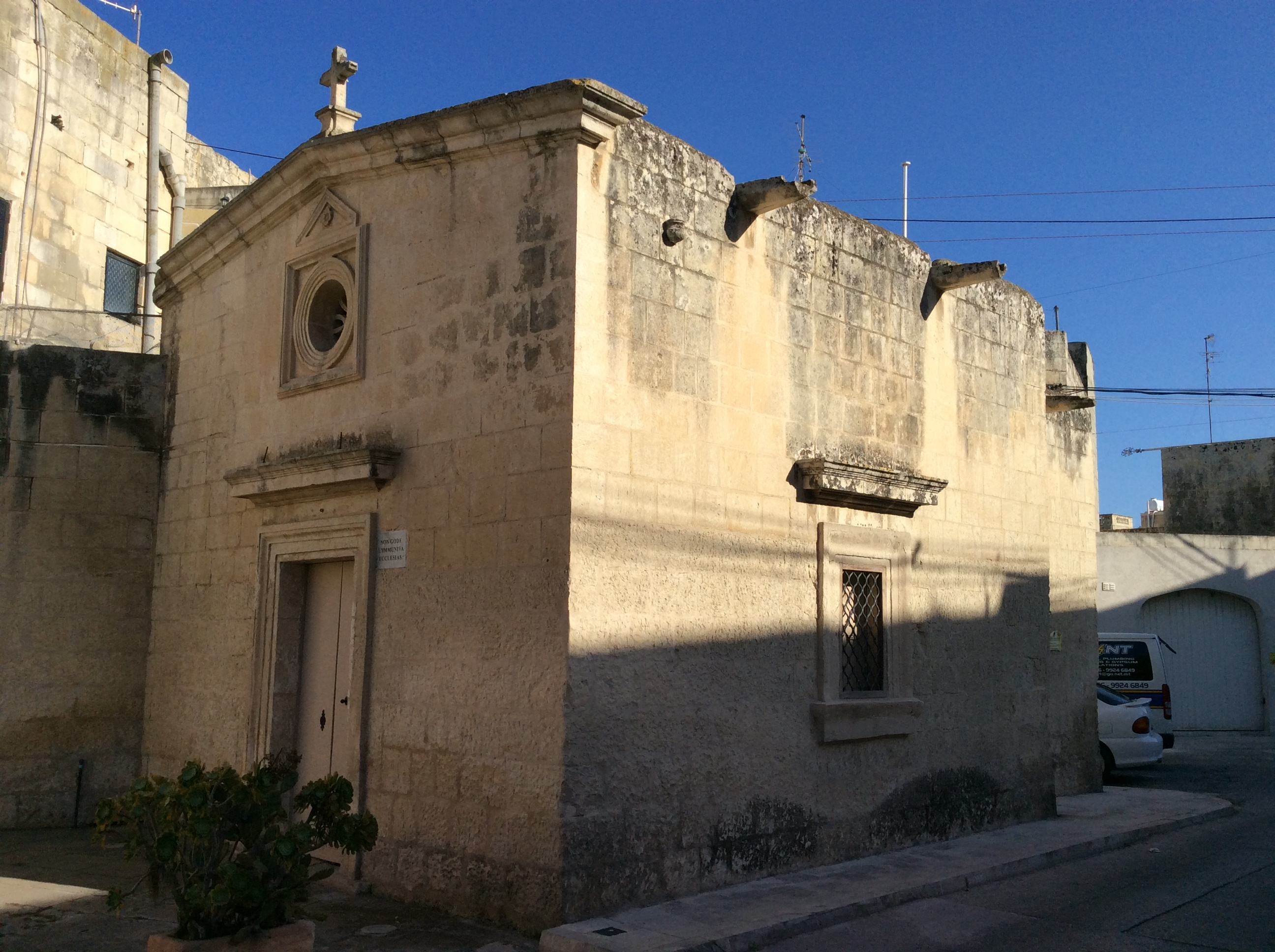 Church of St Roque This media is about Maltese cultural property with inventory number 00169.